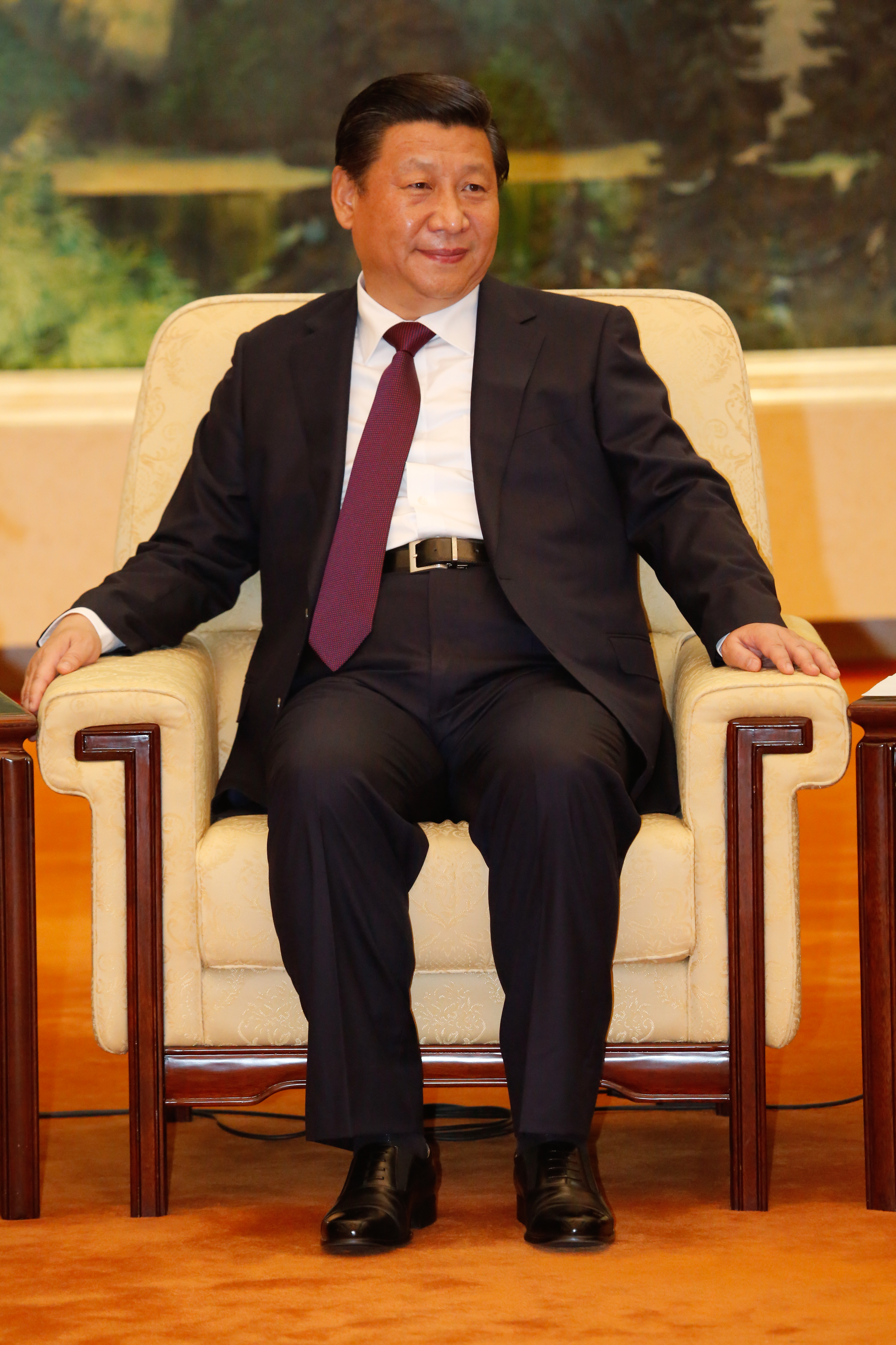 07-11-2013 - Pequim - Vice-presidente Michel Temer em encontro com o presidente da República Popular da China, no Palácio do Povo, Pequim.